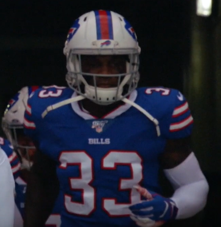 Siran Neal 2019. Image from video Titans Mic'd Up vs. Bills (Week 5) | Sounds of the Game, ~ 00:10